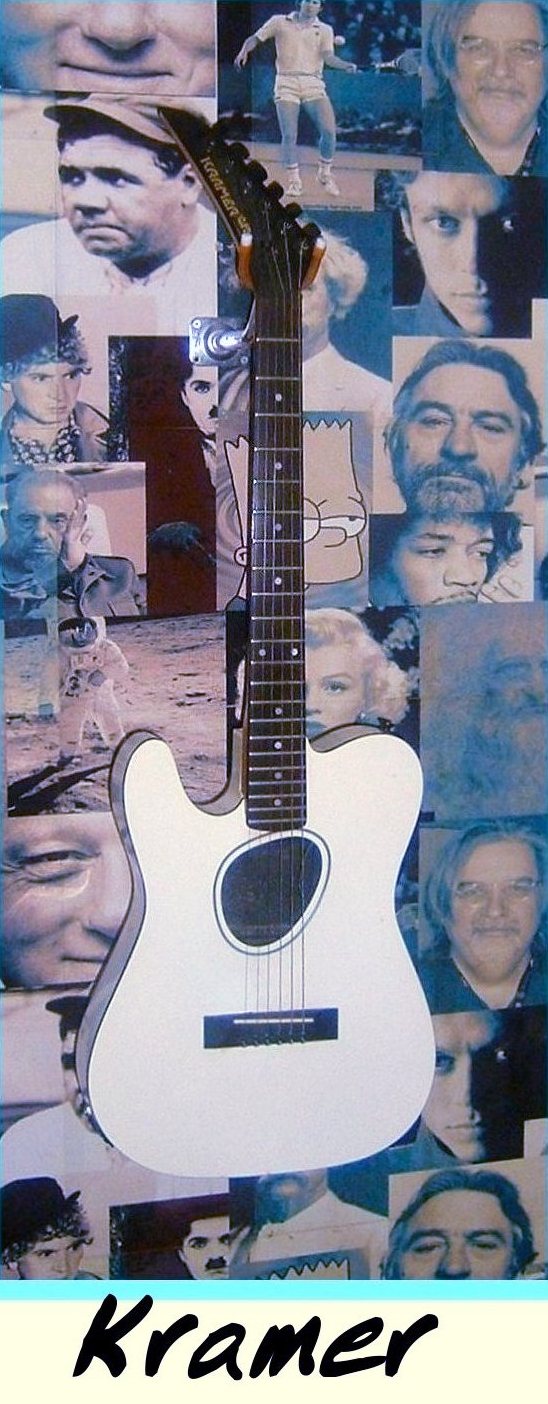 these are a few of my lefties I have bothered to photograph